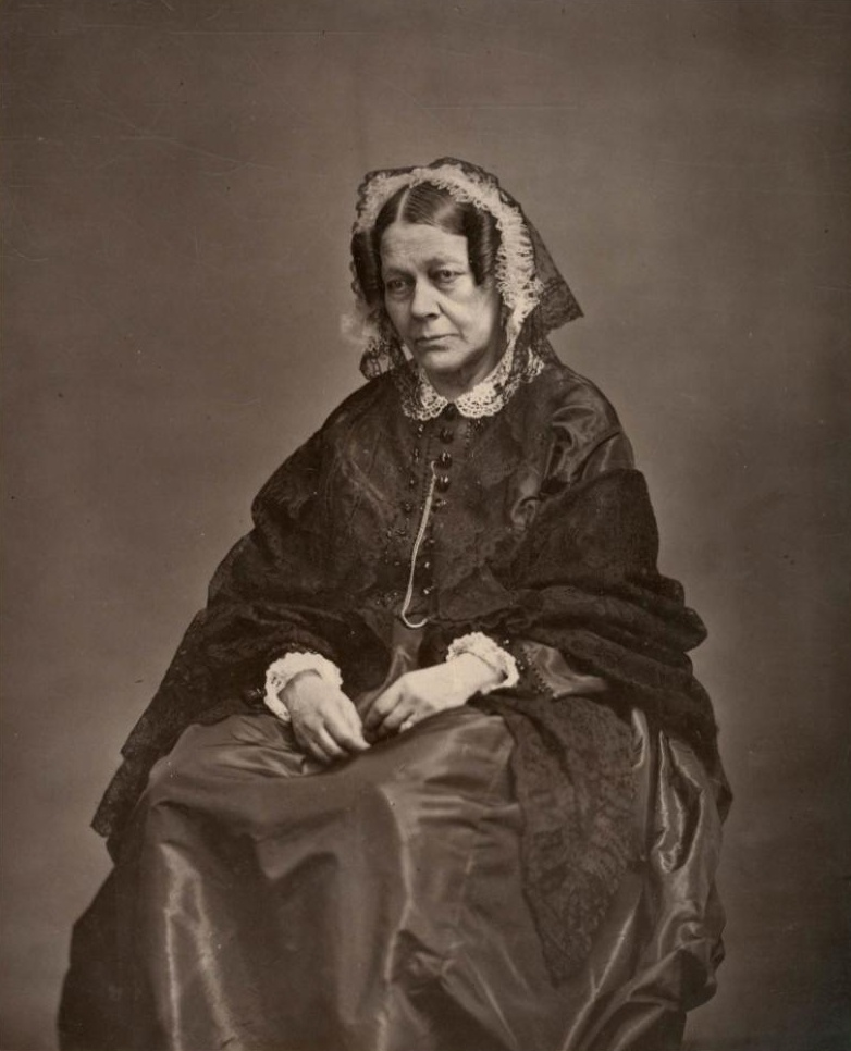 Sophie Rostopchine, Comtesse de Ségur